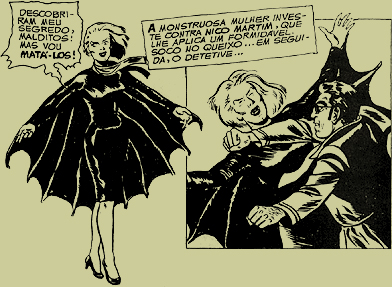 Personagem